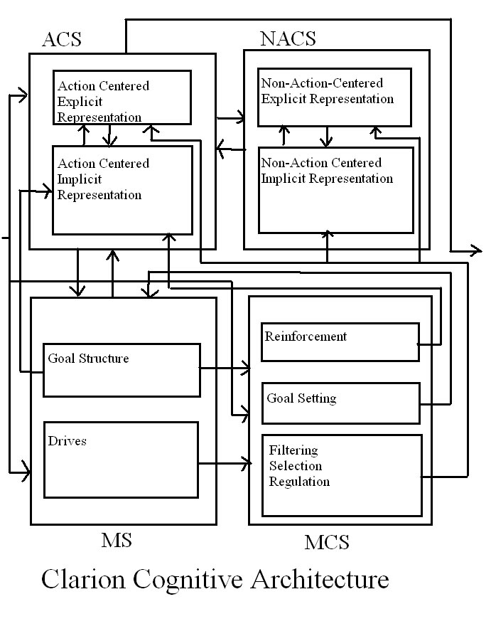 A diagram of the Clarion Cognitive Architecture, Original Drawing on Clarion Site in Presentation, Redrawn and Adapted in Paint then converted to JPG file in Adobe PhotoDeluxe